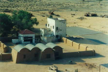 Historical site near Gvulot, Israel